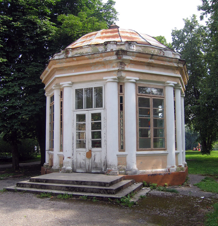 Old rotonda in Druskininkai, Lithuania